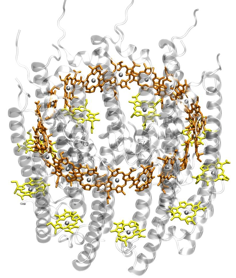 structure of LH2 complex of Rsp. acidophila